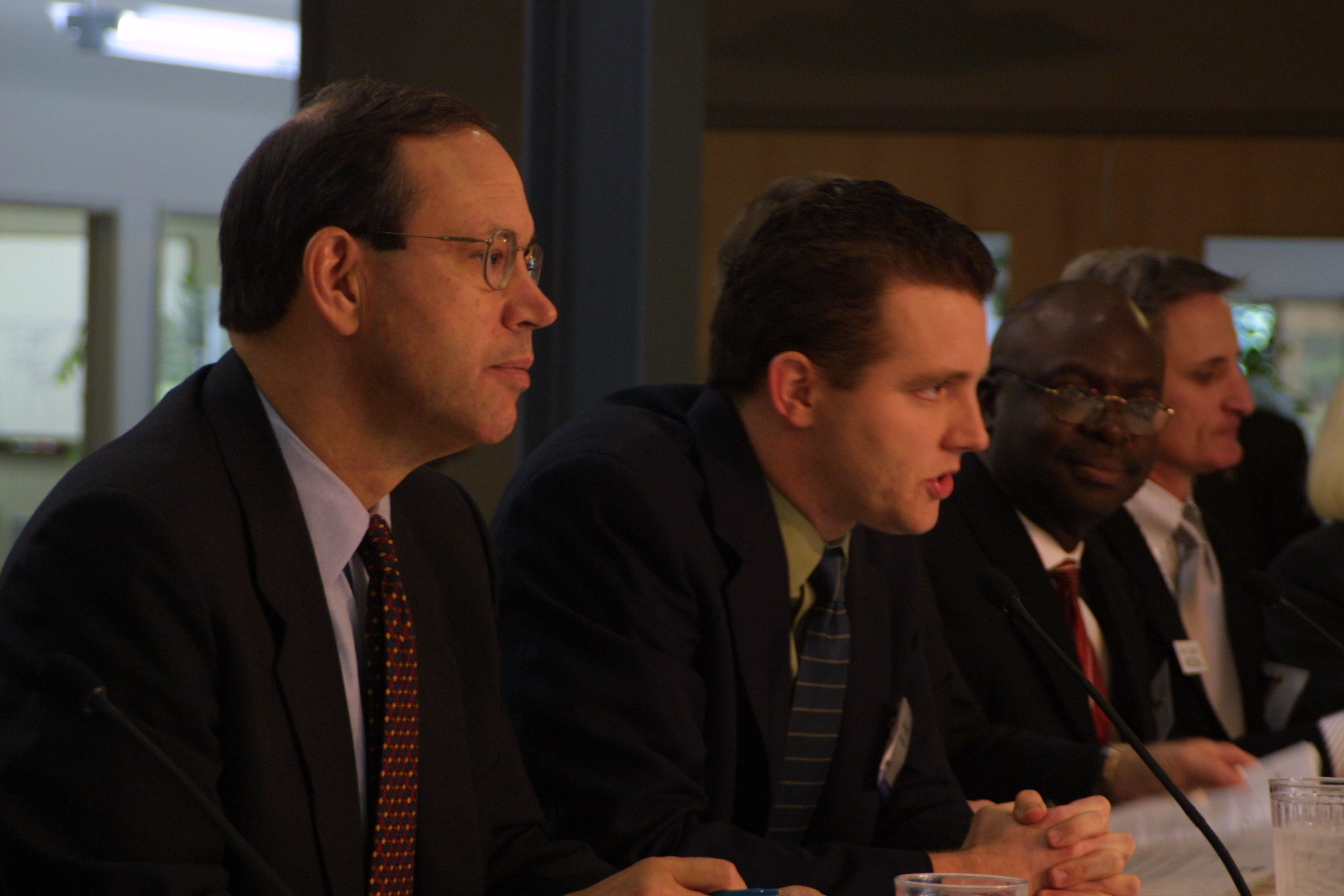 (From left to right) Former Ohio Governor Robert Taft and Hyland Software CEO A.J. Hyland